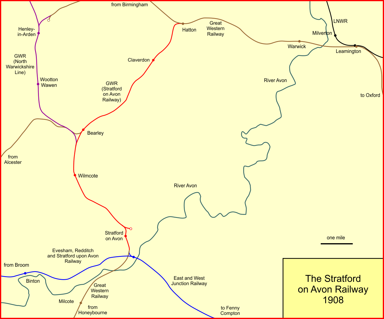 System map of the Stratford on Avon Railway, England in 1908